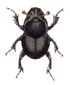 Onthophagus taurus, from Calwer's Käferbuch, Table 21, Picture 4. Taxonomy was updated to 2008, using mostly the sites Fauna Europaea and BioLib. Please contact Sarefo if the determination is wrong!